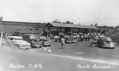 Gare de Pointe-Calumet